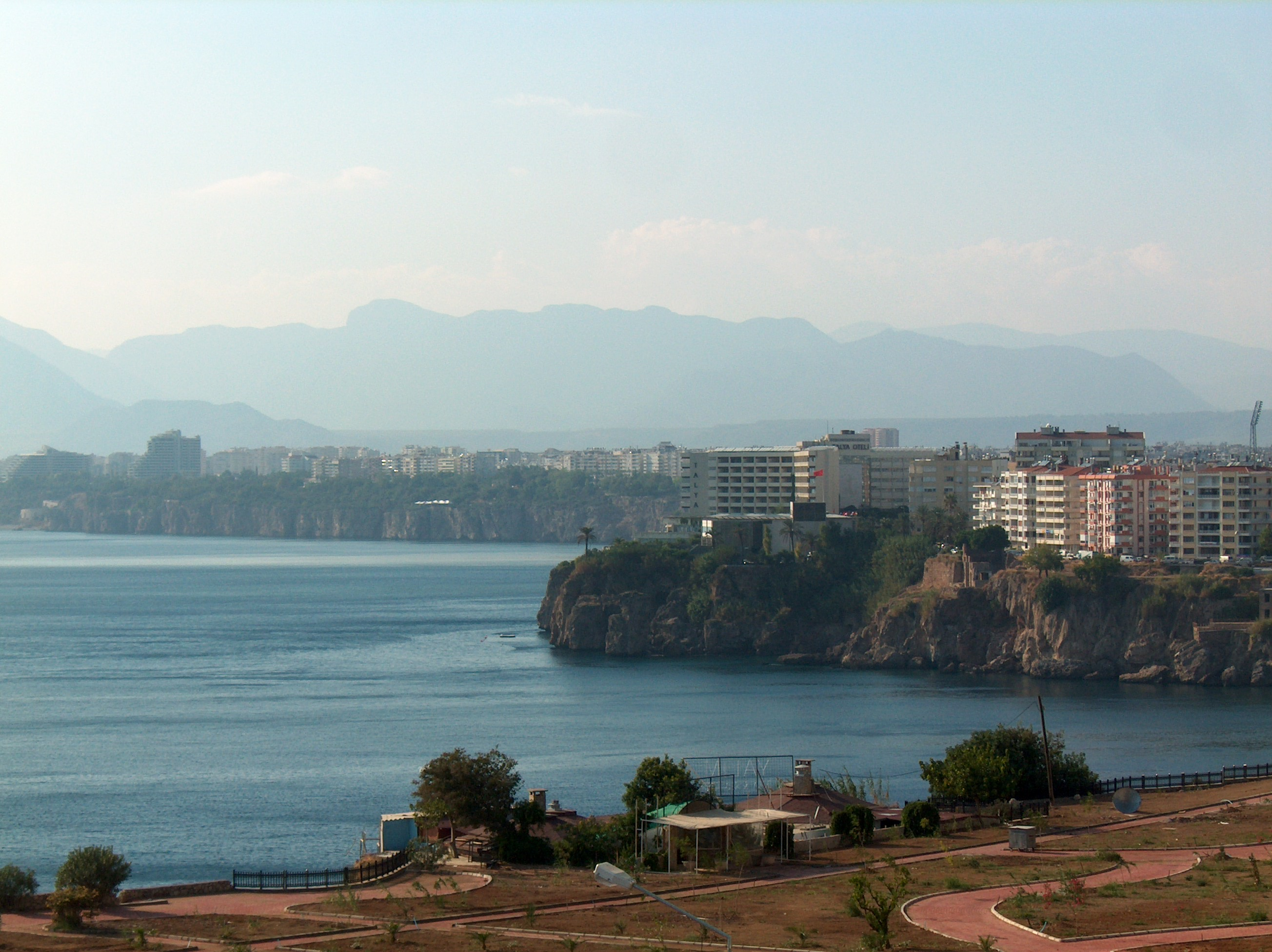 Antalya, a city in southern Turkey.